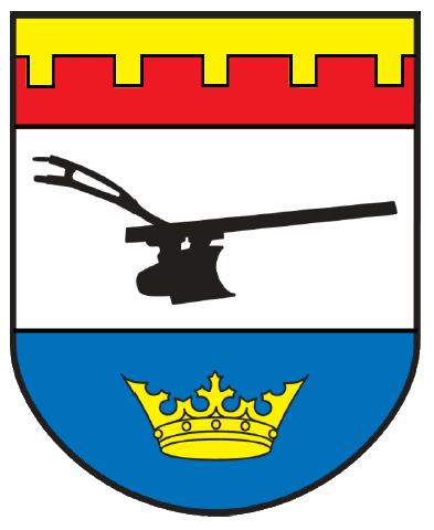 Coat of arms of Uppershausen